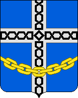 Emblem of Arhipovo